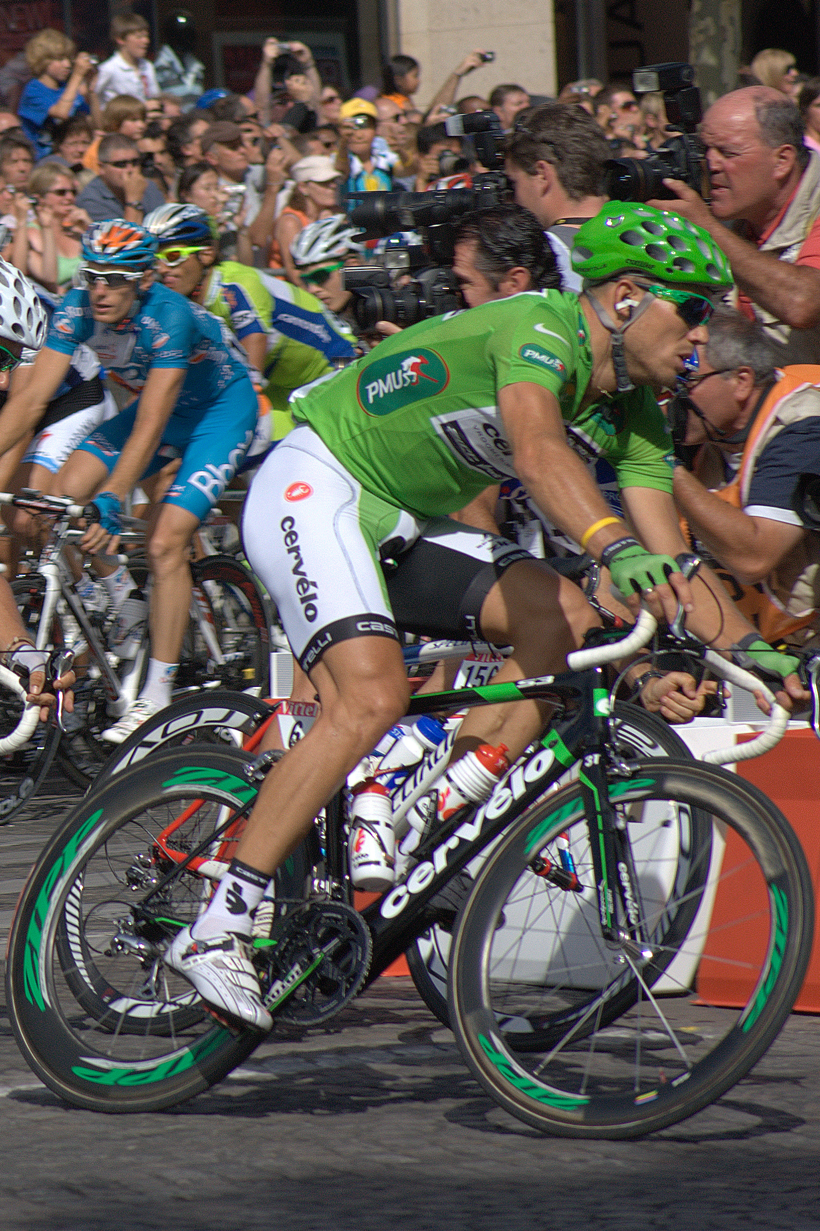 Paris